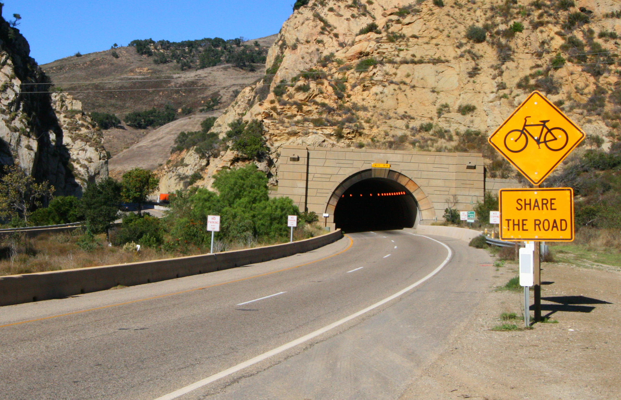 Gaviota Tunnel, Highway 101 North, Santa Barbara County, California.